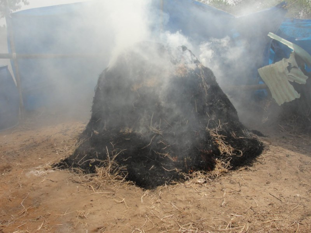 Making of Vibhuti - This image shows a sivarathri muttan wherein the cow dung cakes are burnt to form vibhuti or sacred ash